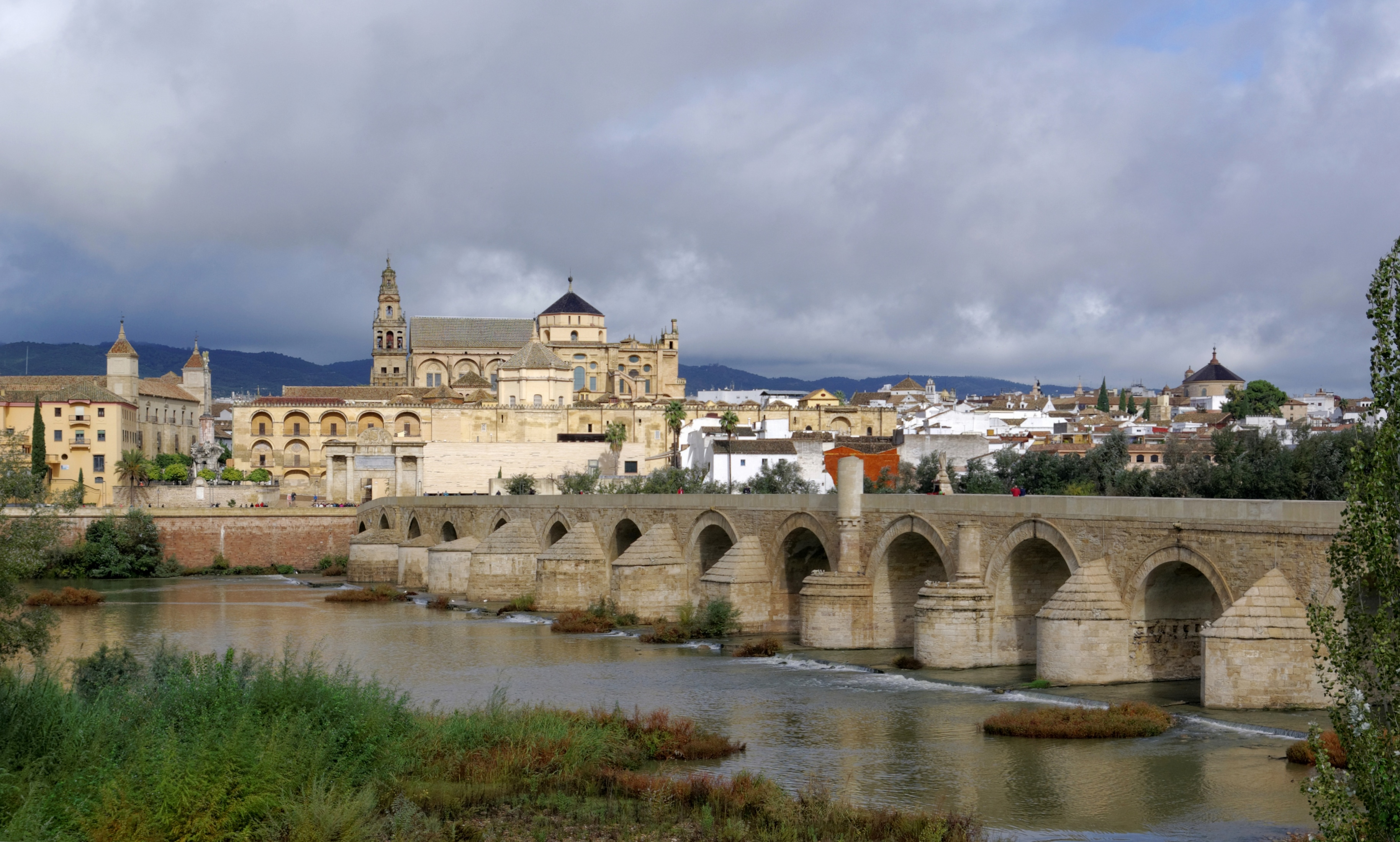 Spain, Cordoba, roman bridge